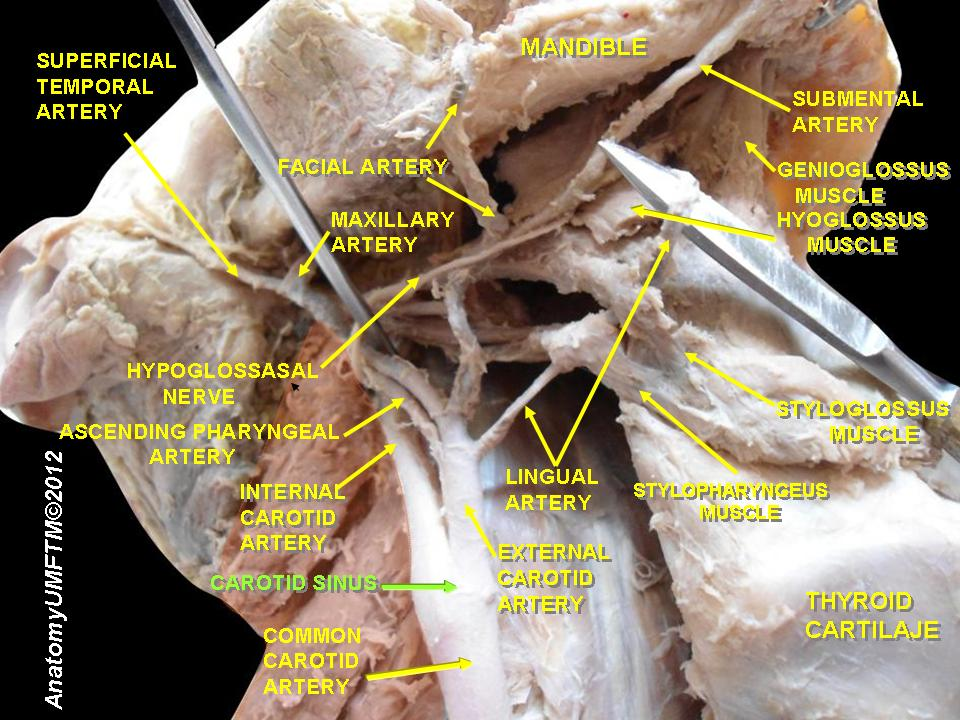 Anatomical dissections